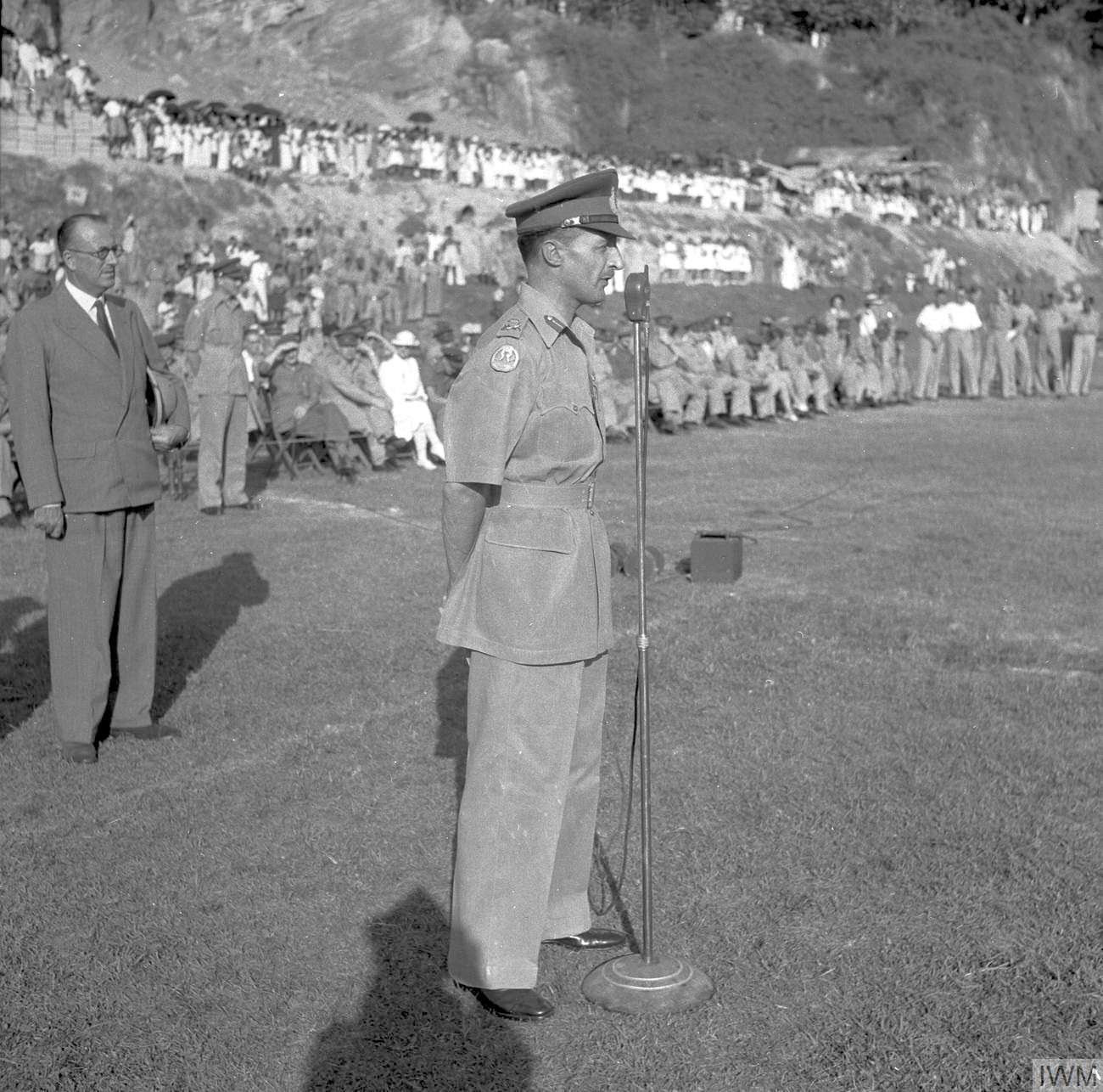 The War in the Far East- the Burma Campaign 1941-1945 British Personalities: Lieutenant General F A M Browning, Chief of Staff to the Supreme Allied Commander South East Asia, takes the salute at the VE Day parade in Ceylon.